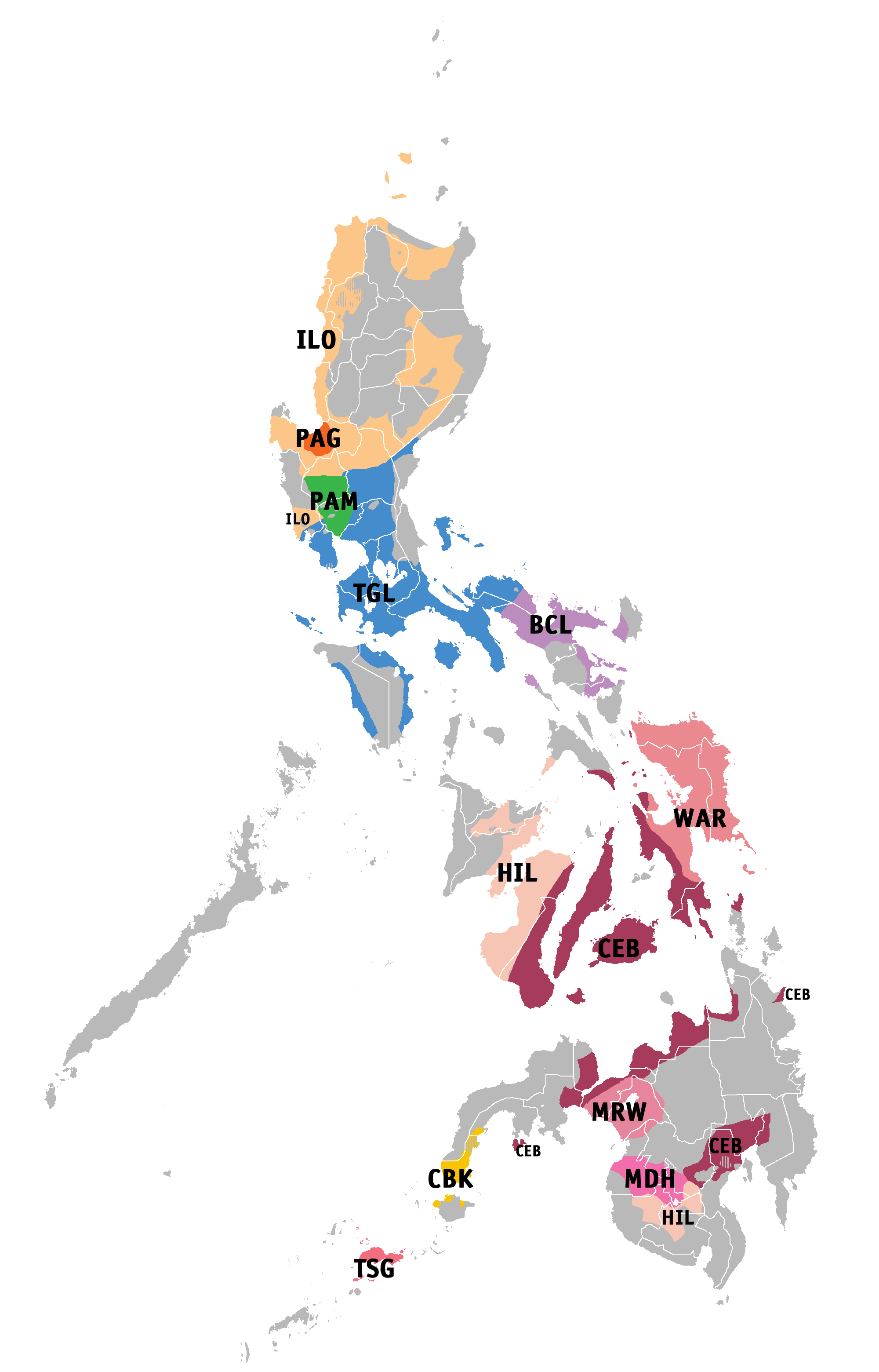 Language map of the 12 recognized regional Philippine languages based on maps from Ethnologue. Filipino: Mapa ng wika batay sa mga mapa ng Ethnologue ng 12 kinikilálang wikang rehiyonal sa Pilipinas.